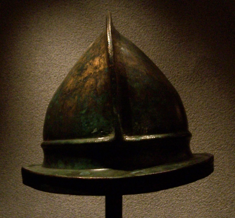 Helmet. Variant of the "type Negau" in use in the central Alps area derived from the Etruscan helmets of the 5th century. Created in the 4th to 1st century BC, found in Daone (Trento), now exhibited in the archaeological Santa Giulia Museum, in Brescia, Italy - Source.